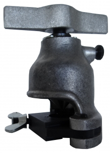 Bördelglocke